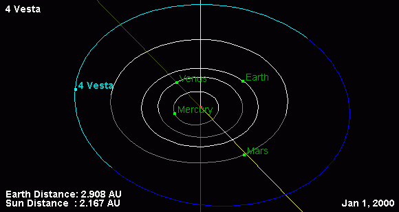 orbit of Vesta